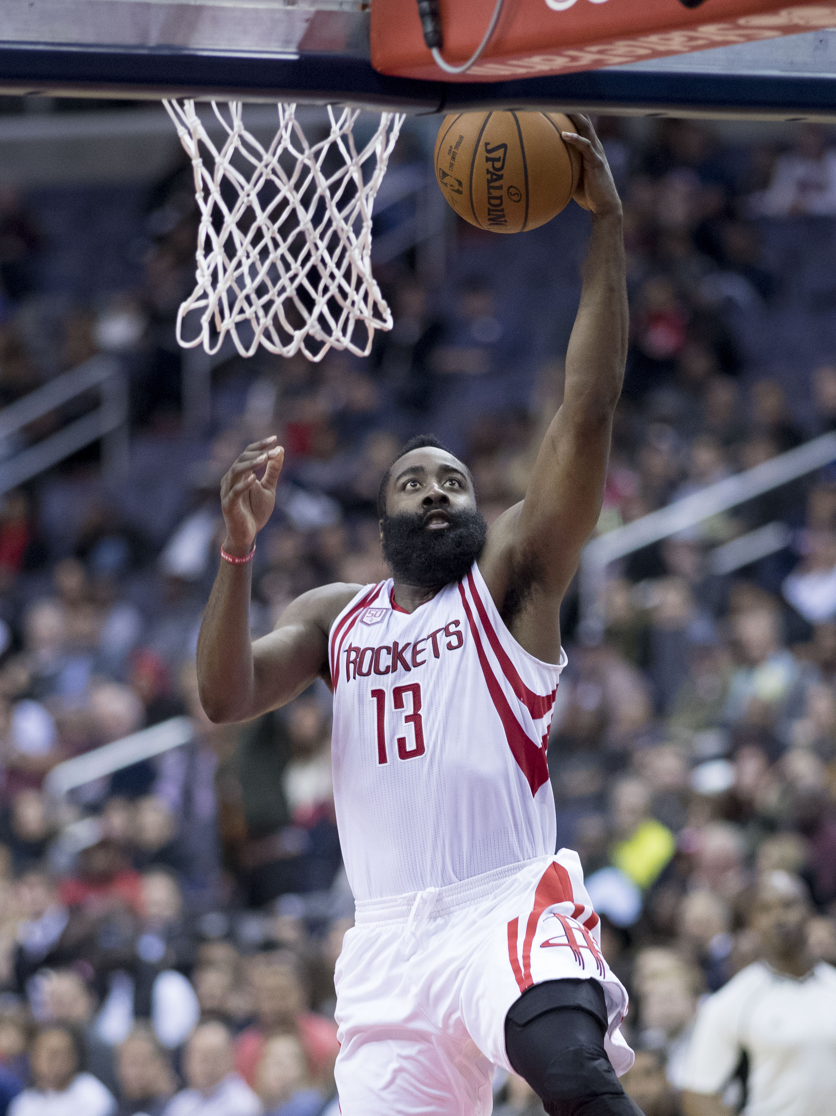 Rockets at Wizards 11/7/16